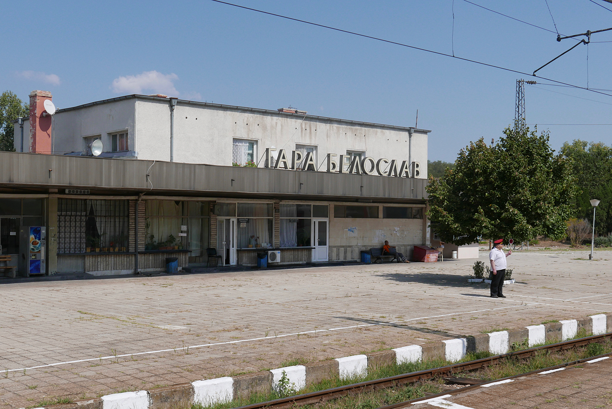 Beloslav train station.